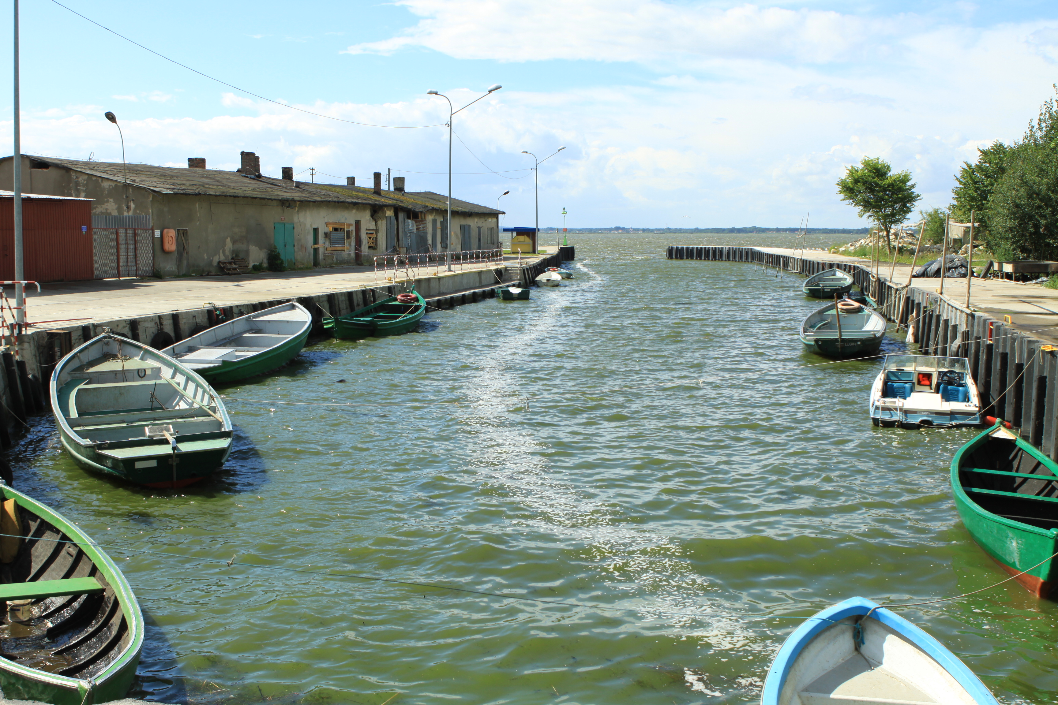 Lubin Harbour, Poland